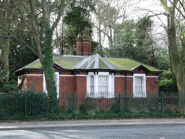 Weelsby Road, Grimsby Weelsby Hall Gate Lodge, built 1890 by L. Maples, For local Trawler Owner George Frederick Sleight. A Grade II Listed Property.